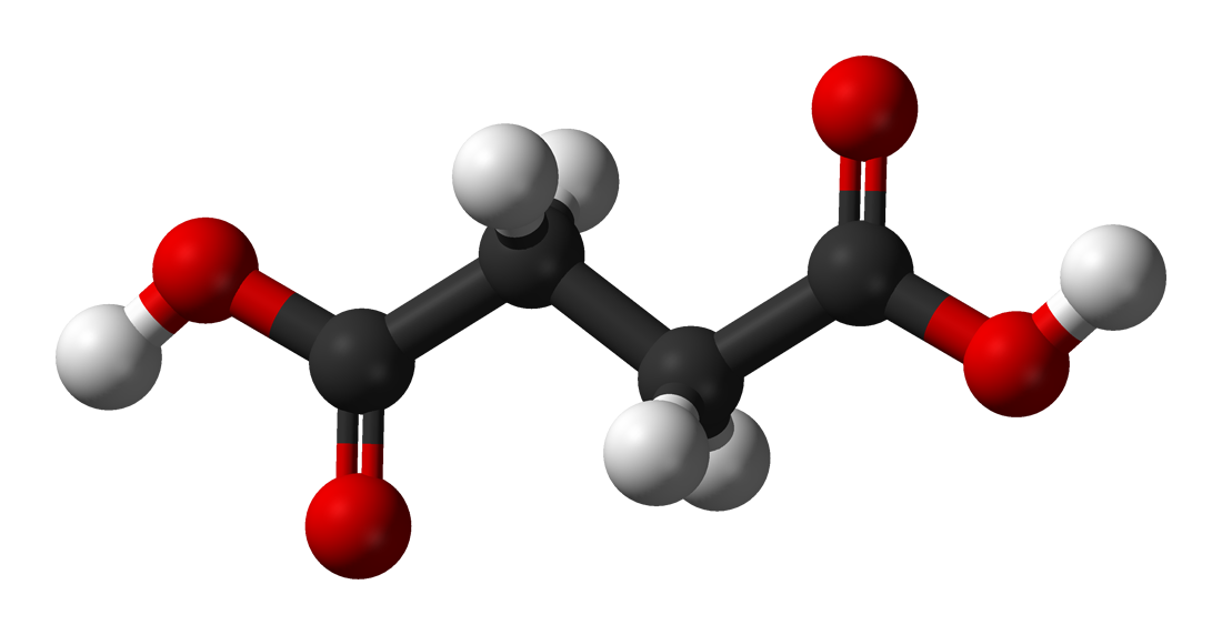 Ball-and-stick model of the succinic acid molecule